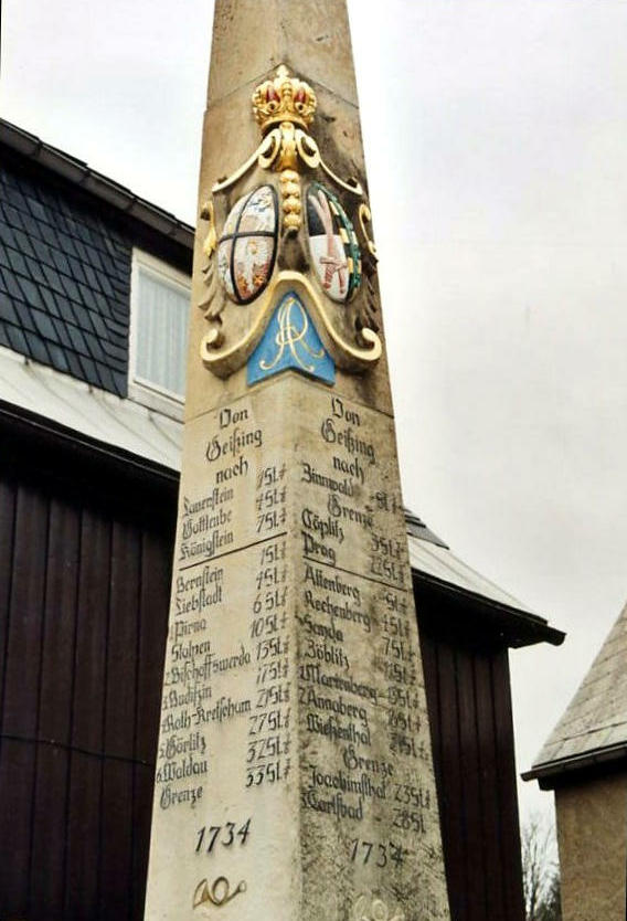 This image shows the electoral saxonian postal distance column from 1734 in Geising.